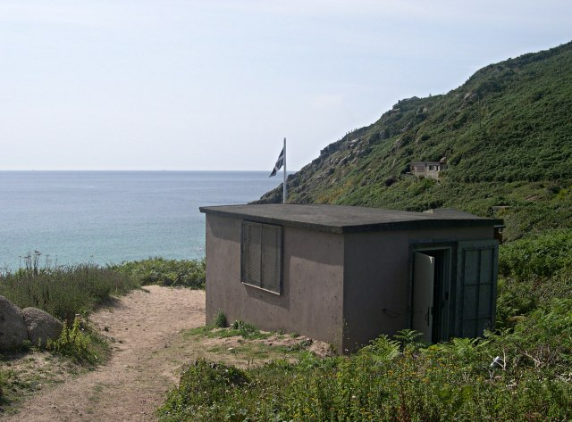 Porthcurno Cable Hut, Cornwall. Telegraph cables from all over the world came on Britain's shores at Porthcurno beach and were routed onwards from this little hut situated just above the beach. See also 318578.